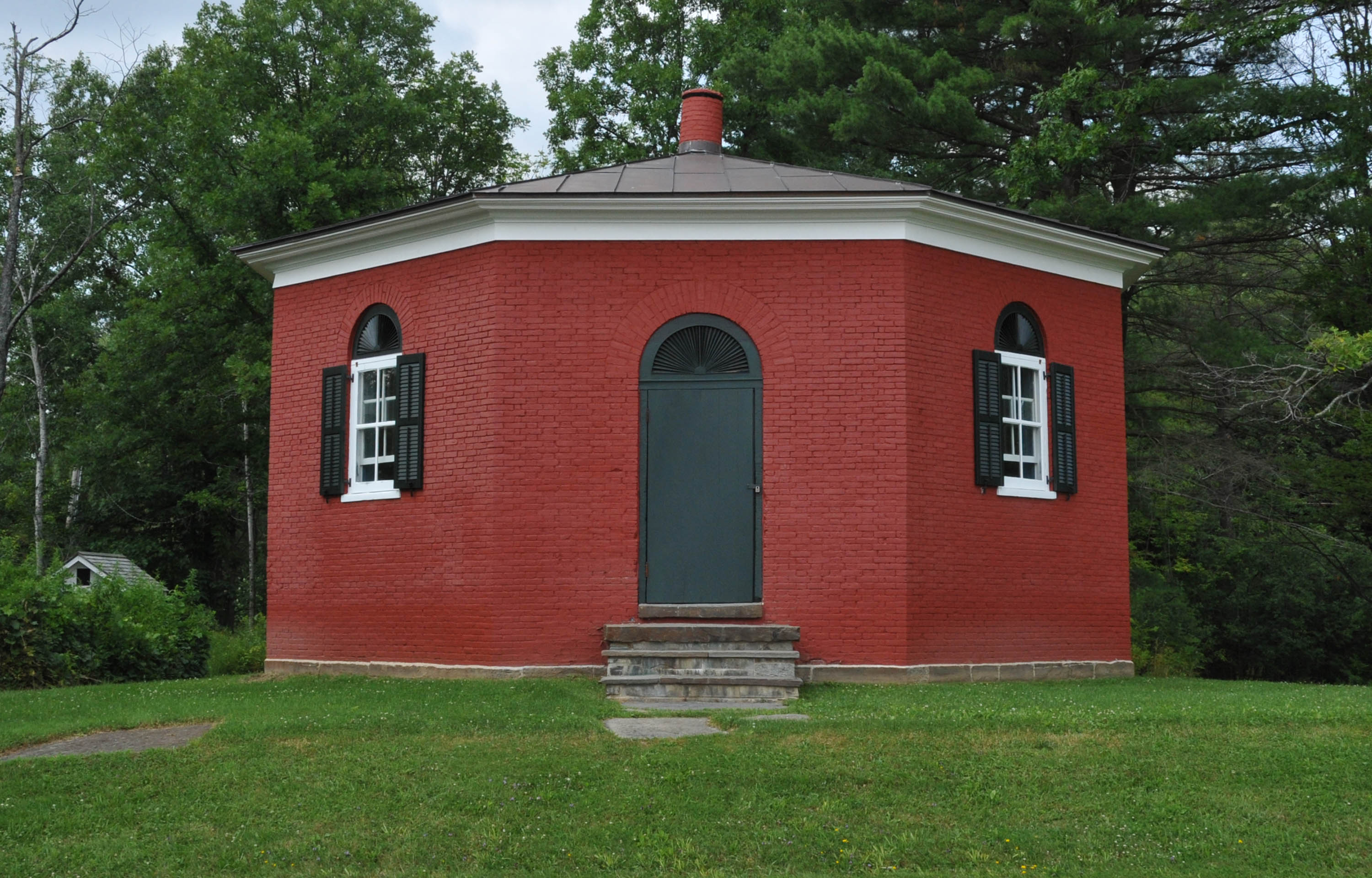 Also known as Eight Square School because of its octagonal shape; built in 1827 and used until 1941.